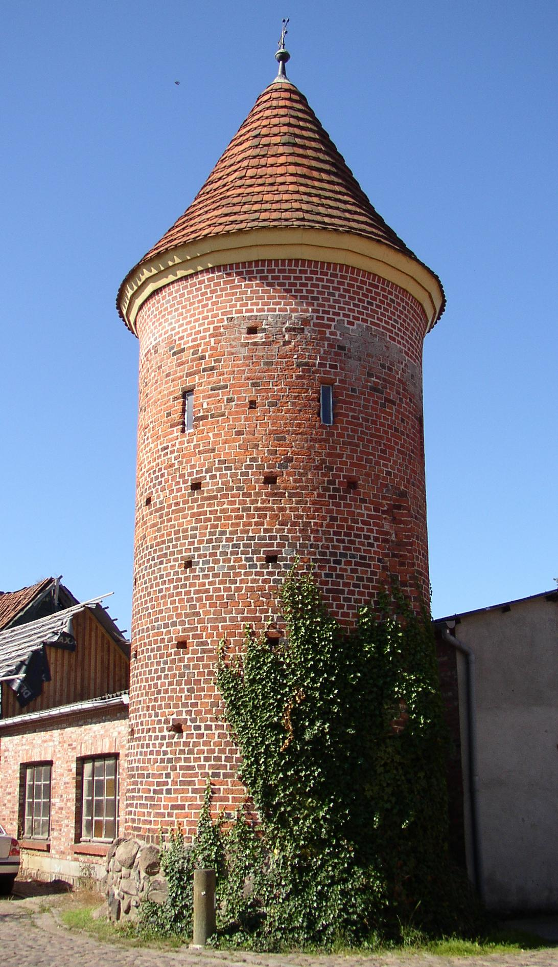 Tower (of city wall) in Wittenburg in Mecklenburg-Western Pomerania, Germany